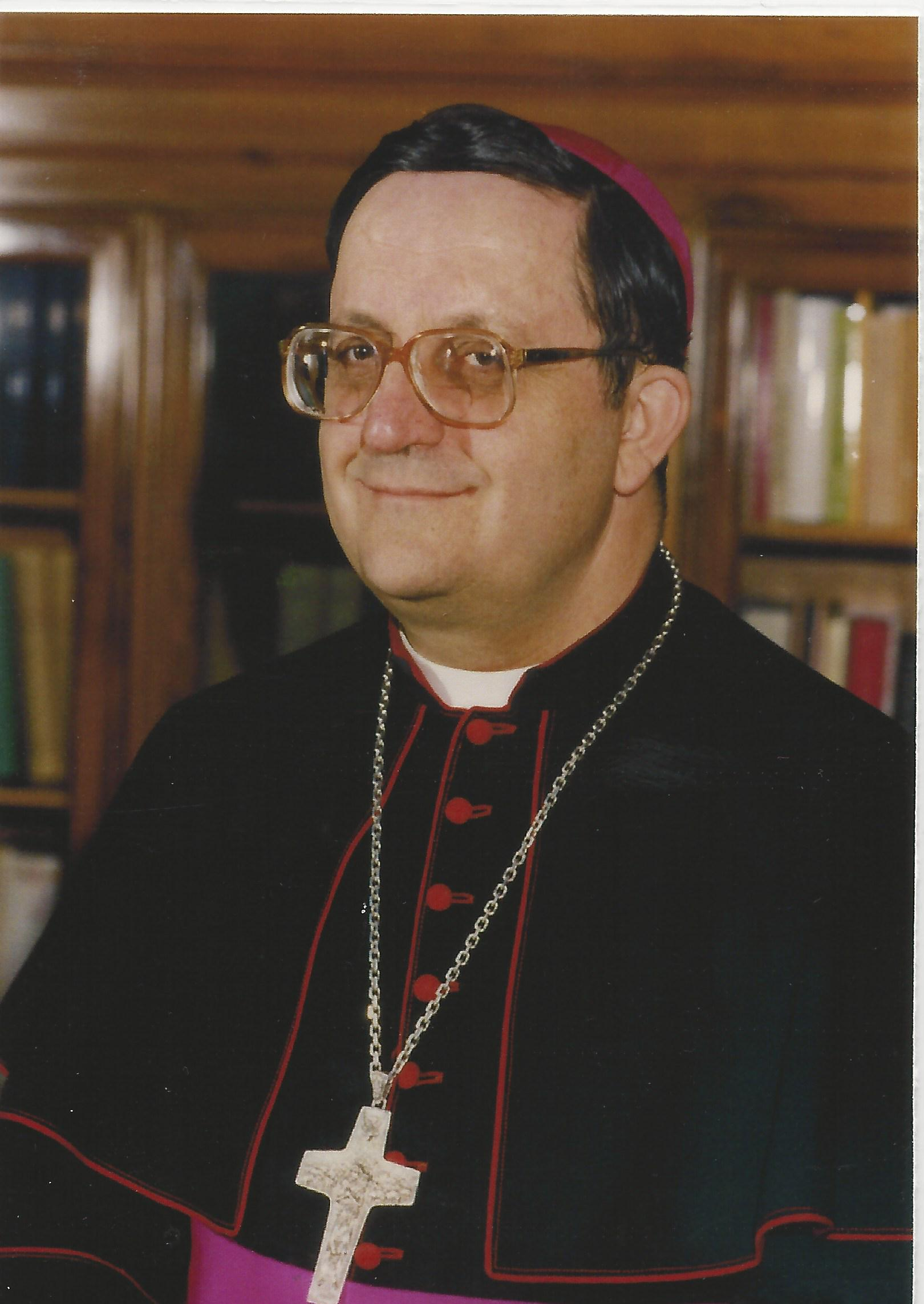 Bishop Bruno Bertagna Photo